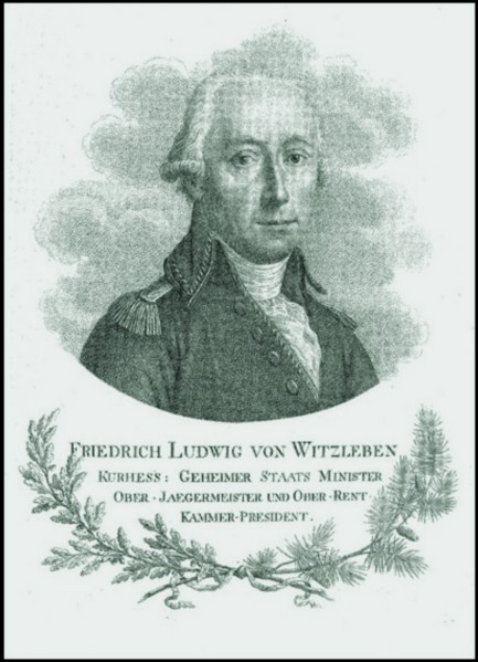 Portrait from Friedrich Ludwig von Witzleben, general manager of the forests from Landgraviate of Hesse, and founder of the forestry school Waldau (Kassel)